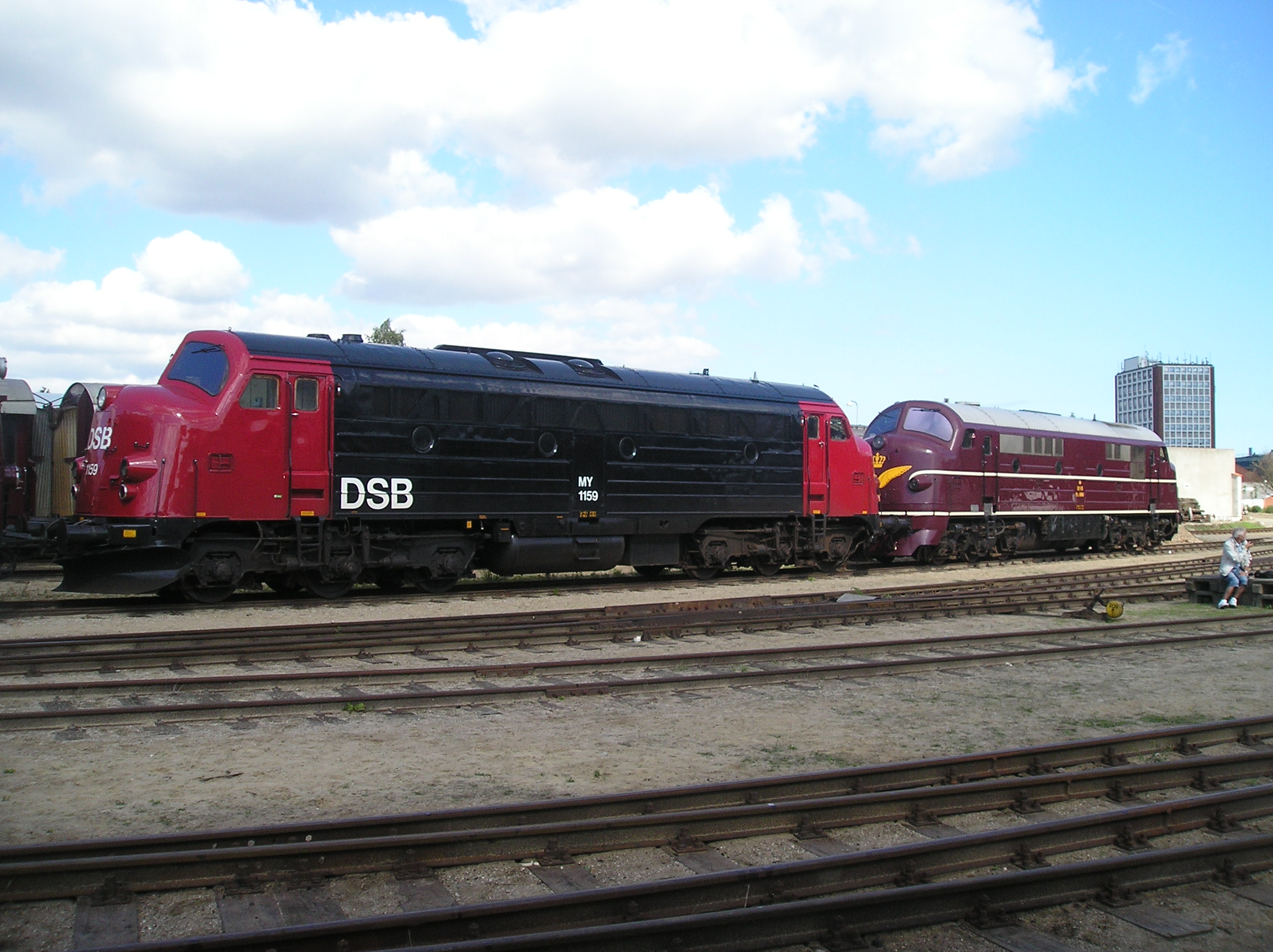 Diesel locomotives DSB MY 1159 and MX 1001 at Danmarks Jernbanemuseum.